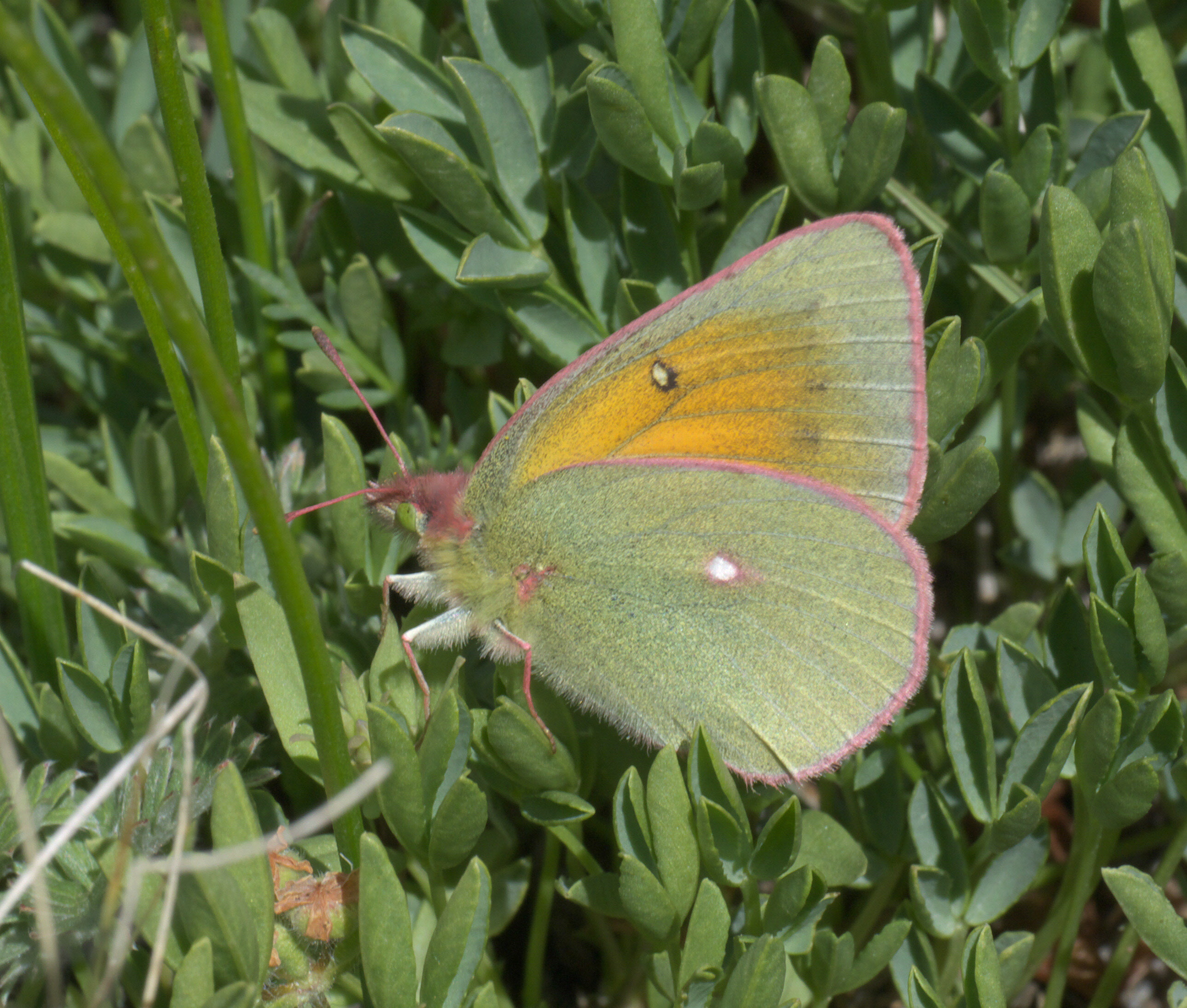 Colias meadii, Mead's sulphur, ID Confidence: 87